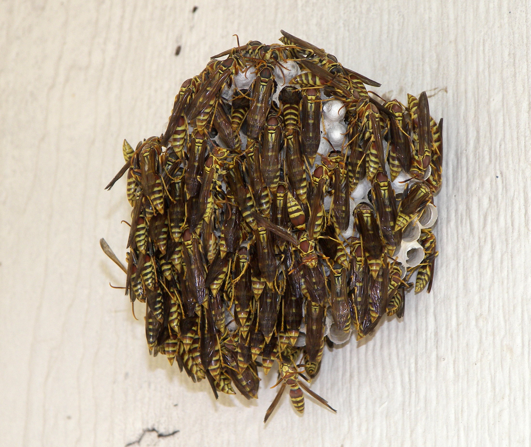 Heavily populated paper wasp (Polistes exclamans) nest in southwest Bastrop County, Texas, United States.